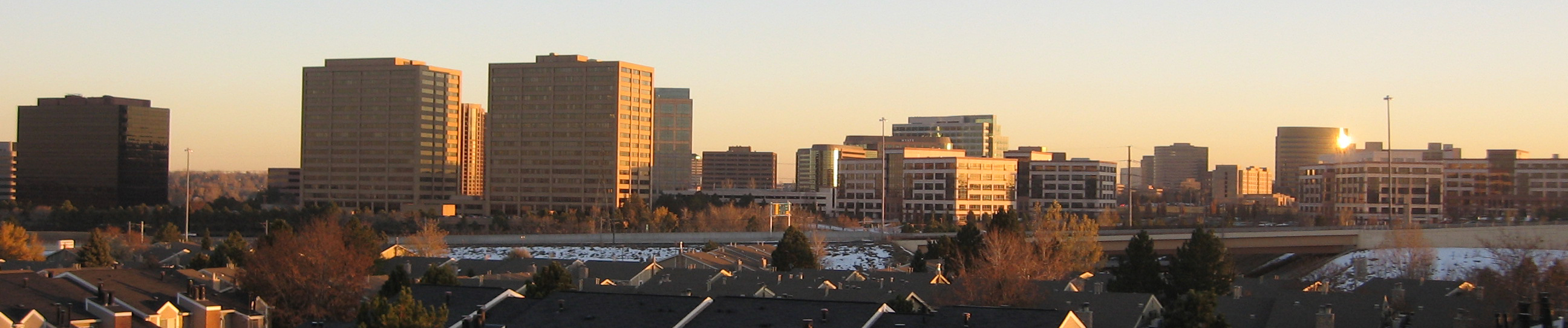 Denver Technological Center skyline, taken from the north at sunset 2009-11-04, by Stormerne using a Canon Powershot A530. Time of creation was actually 16:34 MST as the camera had not been adjusted after the end of DST.